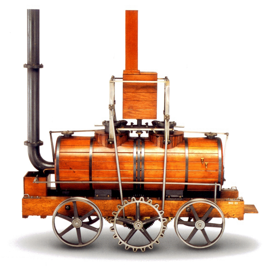 Model Salamanca, scale 1:8, National Railways Museum in York (UK) Česky: Model Salamanca, měřítko 1:8, Národní železniční muzeum v Yorku (GB)